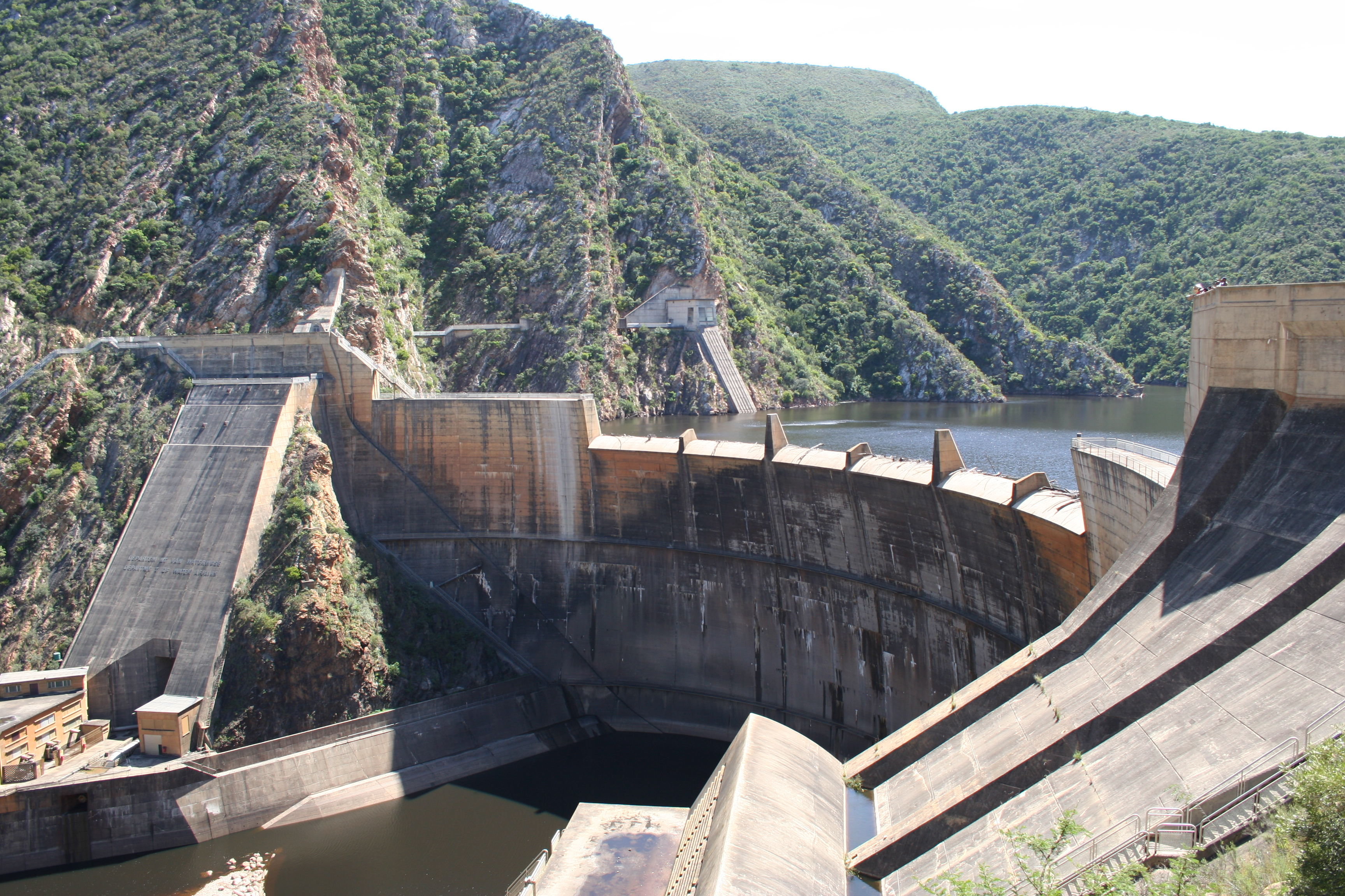 Paul Sauer Dam, Eastern Cape, South Africa